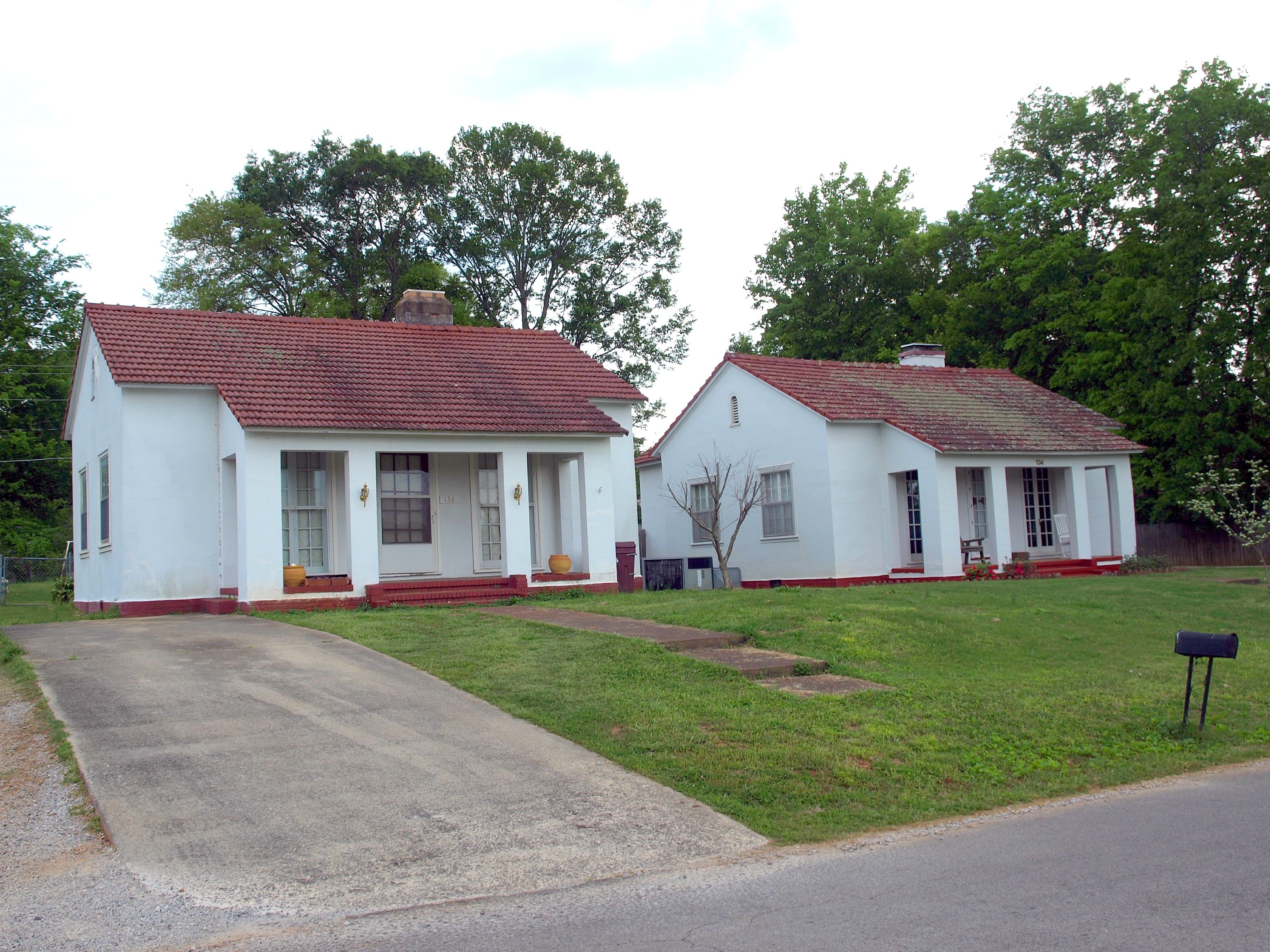 136 and 134 Norris Circle in Sheffield, Alabama, part of the Nitrate Village No. 1 Historic District, listed on the National Register of Historic Places.